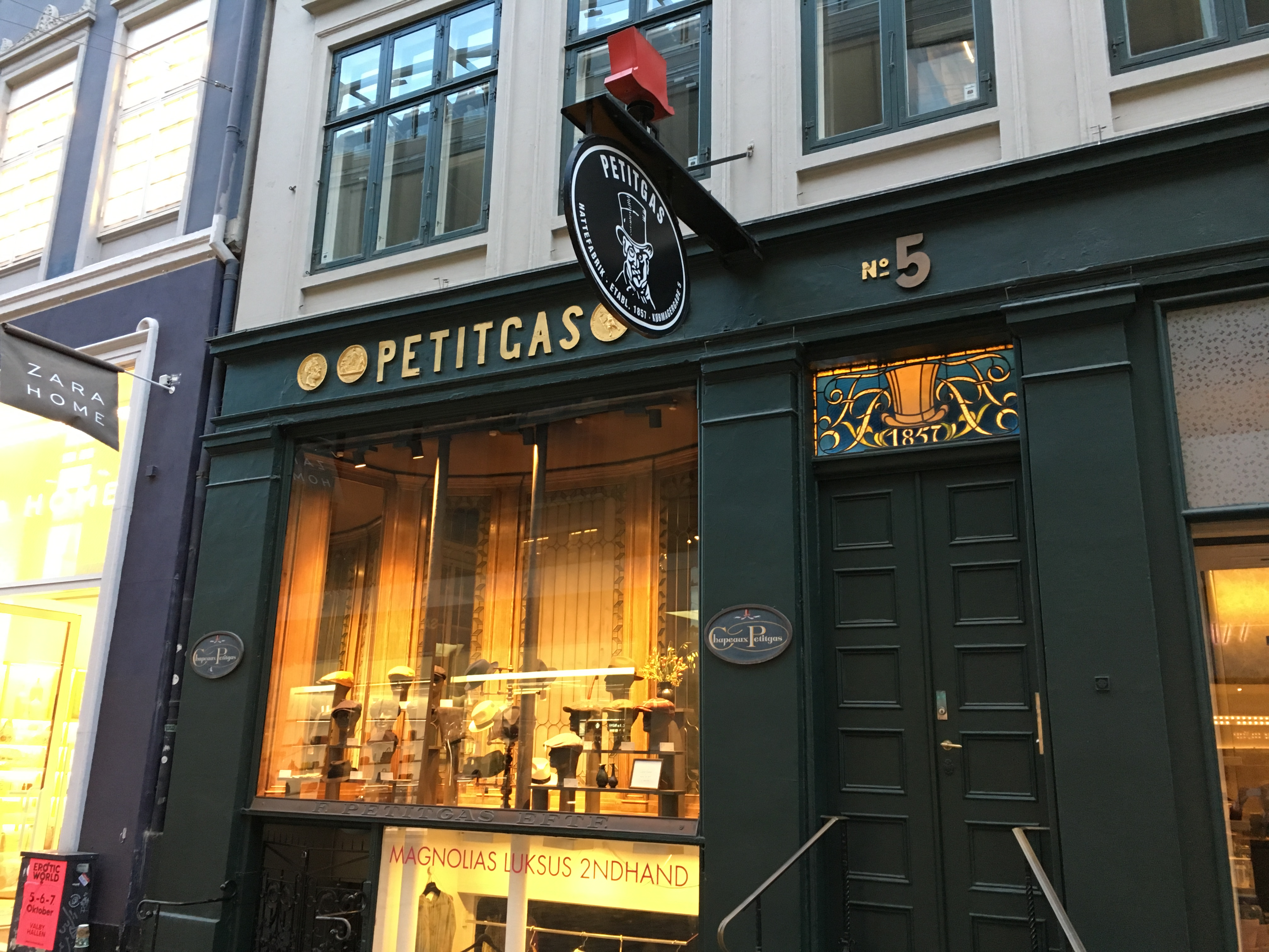 Hattemagern Petitgas på Købmagergade i København. Grundlagt i 1857